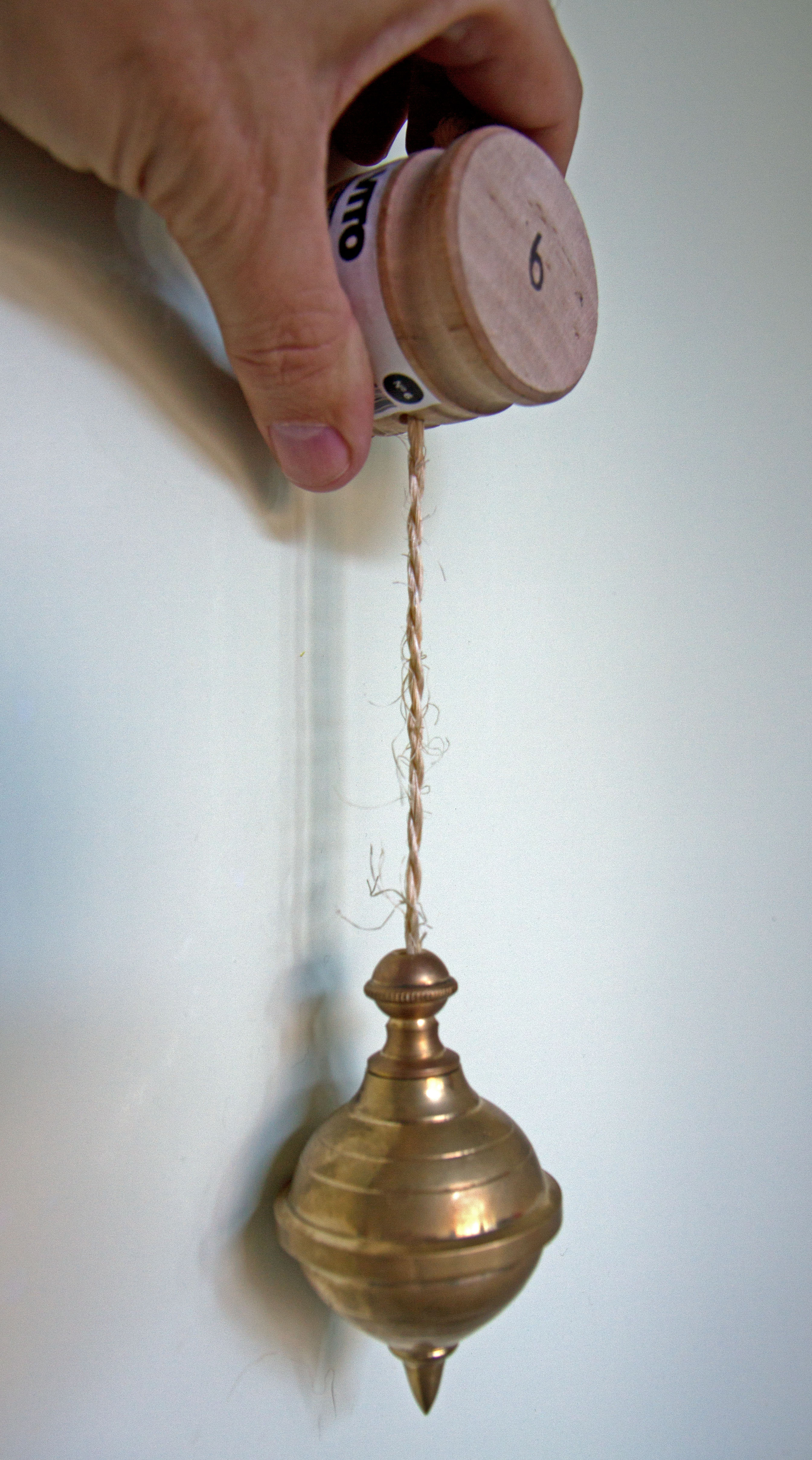 Use of a Portuguese plumb bob